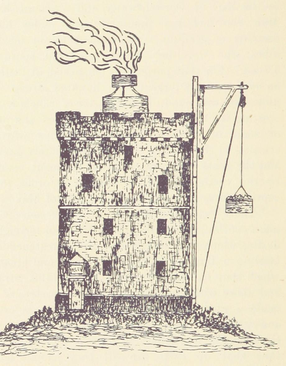 Sketch of the original lighthouse on the Isle of May Image taken from: Title: "Emeralds chased in Gold; or, the Islands of the Forth: their story, ancient and modern. [With illustrations.]" Author: DICKSON, John - F.S.A. Scot Shelfmark: "British Library HMNTS 010370.f.42." Page: 314 Place of Publishing: Edinburgh Date of Publishing: 1899 Publisher: Oliphant, Anderson & Ferrier Issuance: monographic Identifier: 000934223 Explore: Find this item in the British Library catalogue, 'Explore'. Open the page in the British Library's itemViewer (page image 314) Download the PDF for this book Image found on book scan 314 (NB not a pagenumber)Download the OCR-derived text for this volume: (plain text) or (json) Click here to see all the illustrations in this book and click here to browse other illustrations published in books in the same year.